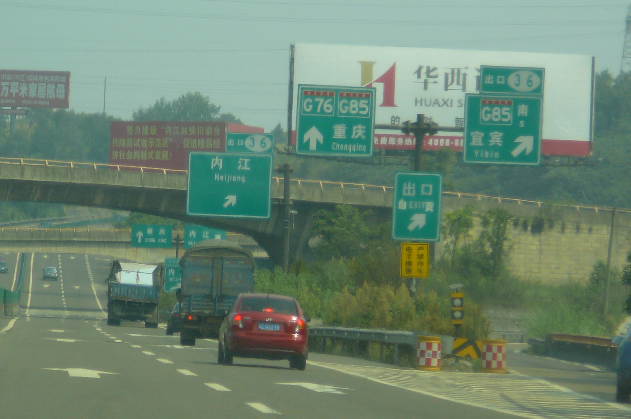 Chengyu EXPWY